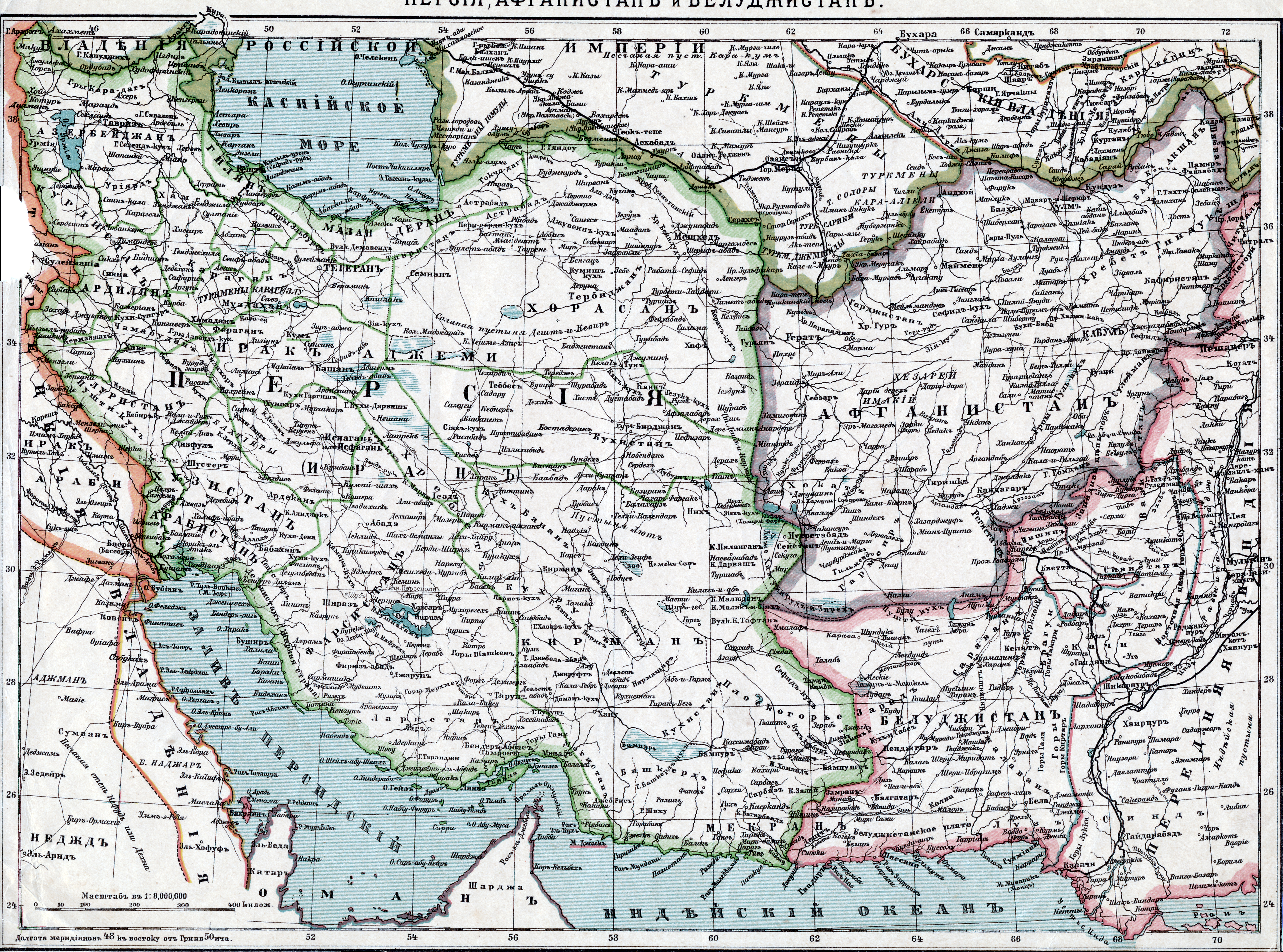 Map of Persia, Afghanistan and Baluchistan, the end of the nineteenth century.